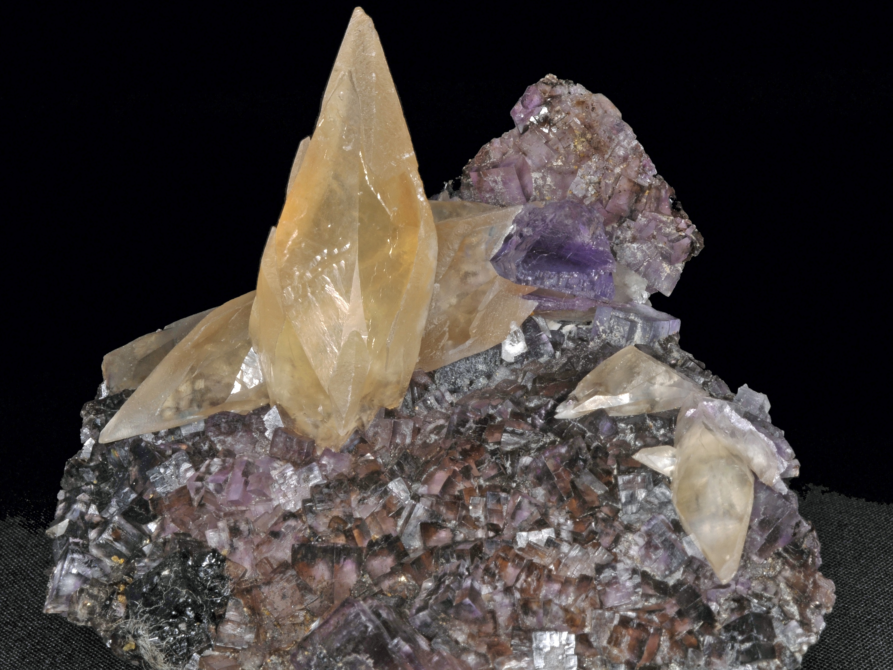 calcite, fluorite var. violet fluorite : Elmwood Mine, Carthage, Smith County, Tennessee, USA - cristal 38 mm